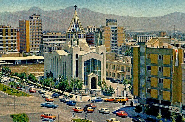 The Karimkhan Blvd- Vila St. junction in Tehran, Mid 1970s. Saint Sarkis Cathedral is located in Southeast of the junction.